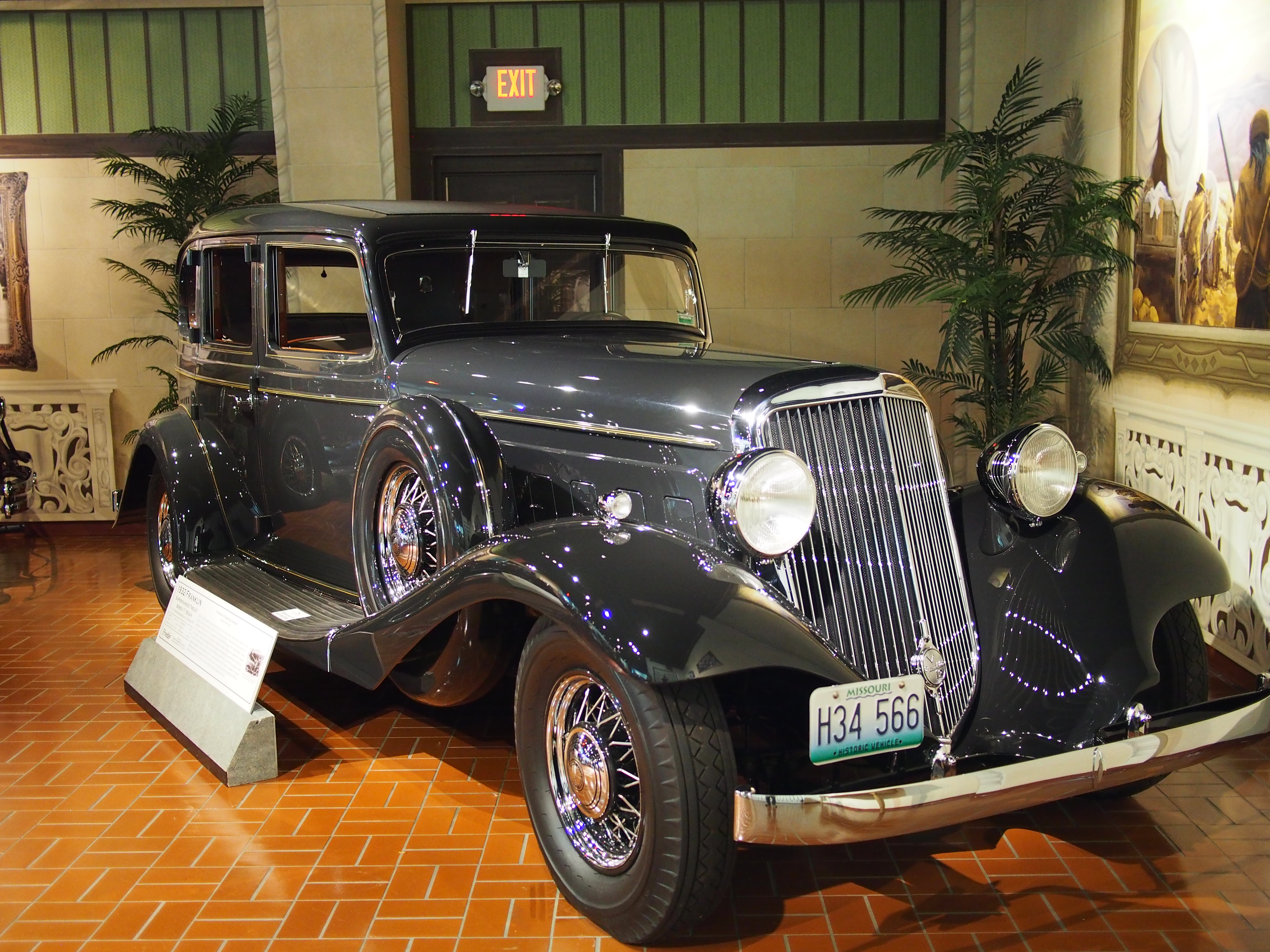 1932 Franklin Supercharged Twelve Series 17 Sedan Franklin Collection, Gilmore Car Museum